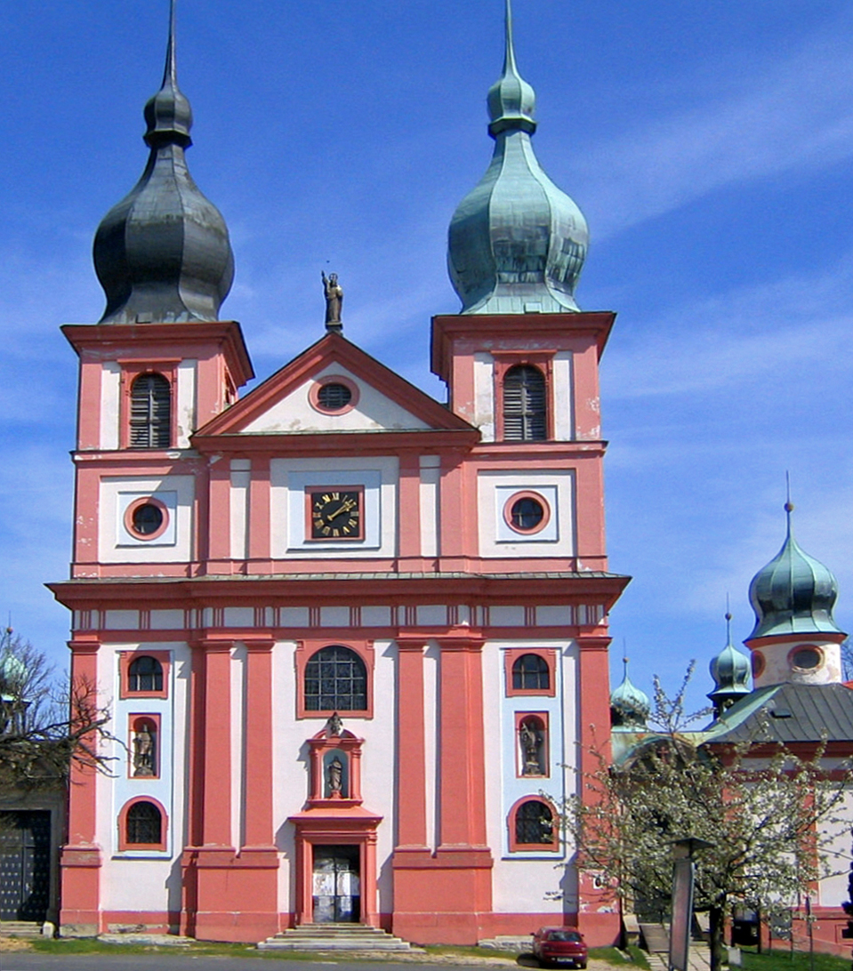 Front view of pilgrimage church of the Assumption in Chlum Svaté Maří, Sokolov District, Czech Republic.